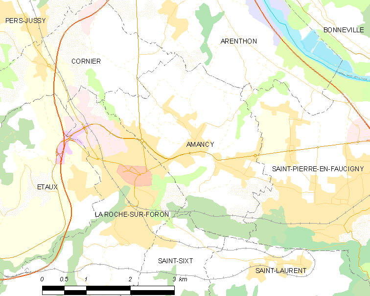 Map of French municipality Amancy